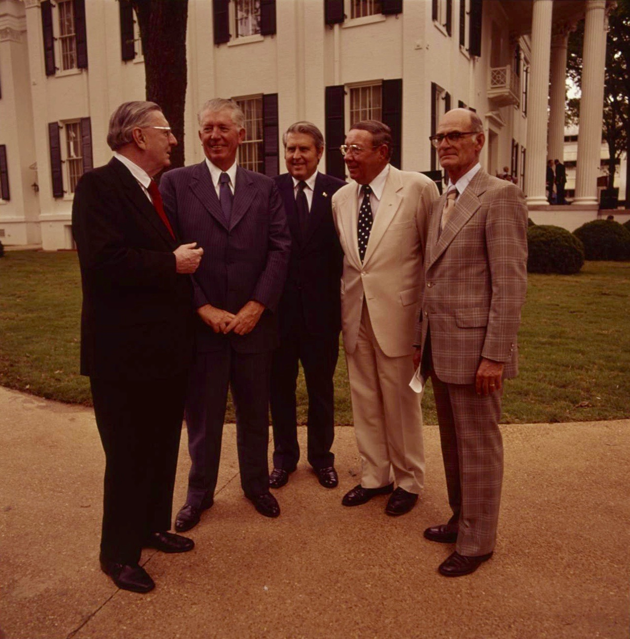 Collection: Governors Portraits photograph collection Call number: PI/1989.0008 System ID: 98813. Link to the catalog From left to right, Ross Barnett, James P. Coleman, William L. Waller, John Bell Williams, Paul B. Johnson, Jr., standing on Mississippi Governor's Mansion lawn during restoration formal opening ceremonies, June 8, 1976. Please see our profile page for information on ordering. Scanned as tiff in 2008/05/15 by MDAH. Credit: Courtesy of the Mississippi Department of Archives and History